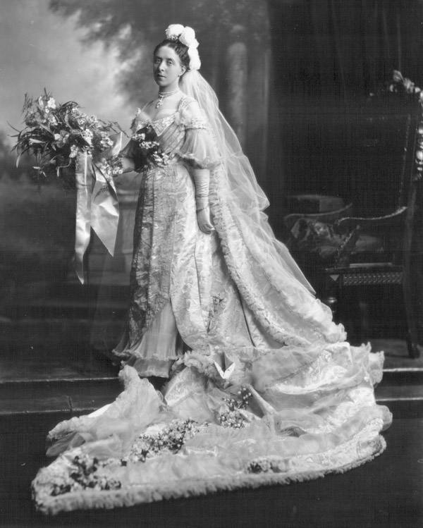 Lady Munro, née Margaret Violet Stirling (d. 1946). m. (1880) Sir Hector Munro, 11th Bt. of Foulis. Photographed on 16 May 1902.